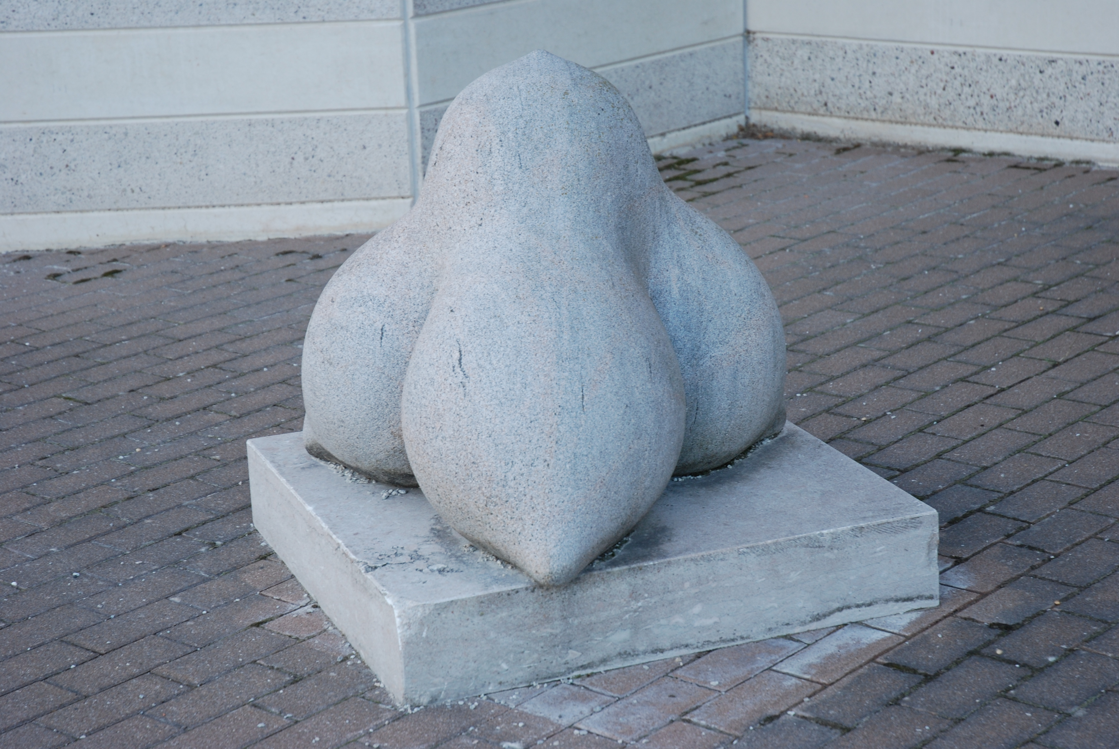 Eva Langes Koncentration , granit, 1993, utanför Förlossningsavdelningen på Visby lasarett